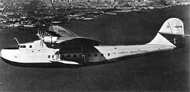 China Clipper (NC14716), Martin model 130, passenger-carrying flying boat, Figure 8.15 (mfr)